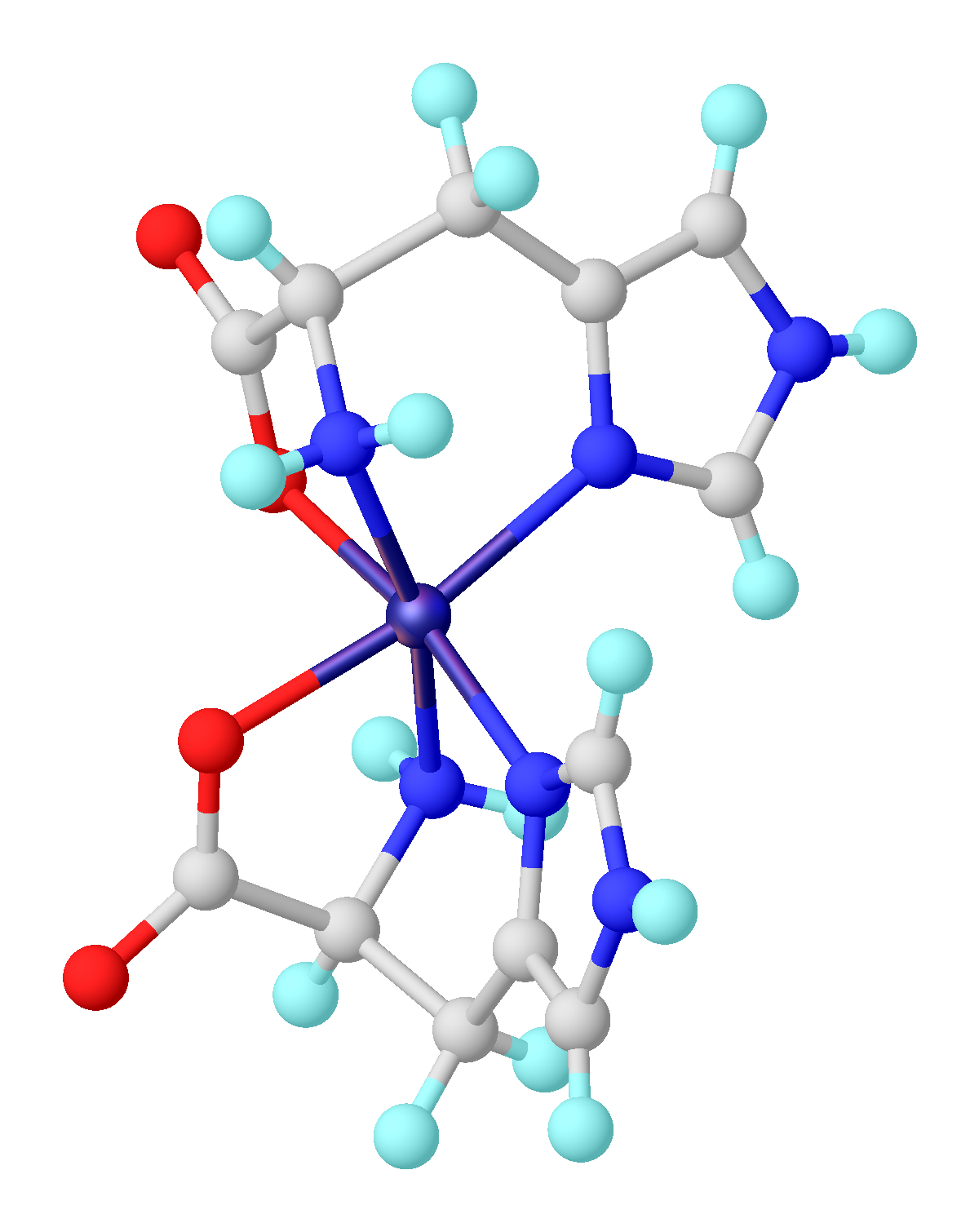 structure of Ni(kappa-3-histidinate)2